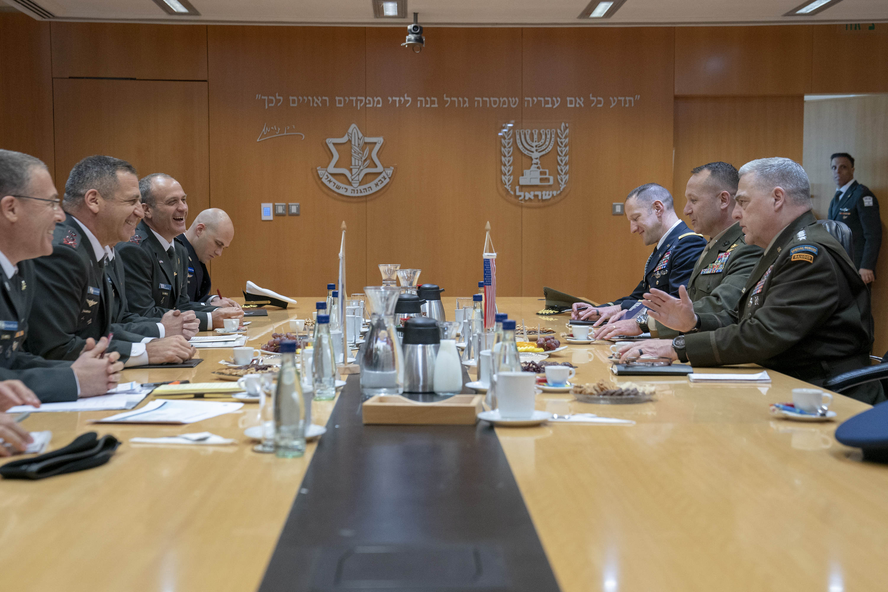 Army Gen. Mark A. Milley, chairman of the Joint Chiefs of Staff, is hosted by Israeli Army Lt. Gen. Aviv Kohavi, Chief of the Israeli General Staff, at The Kirya in Tel Aviv, Israel, Nov. 24, 2019. (DOD photo by U.S. Navy Petty Officer 1st Class Dominique A. Pineiro)